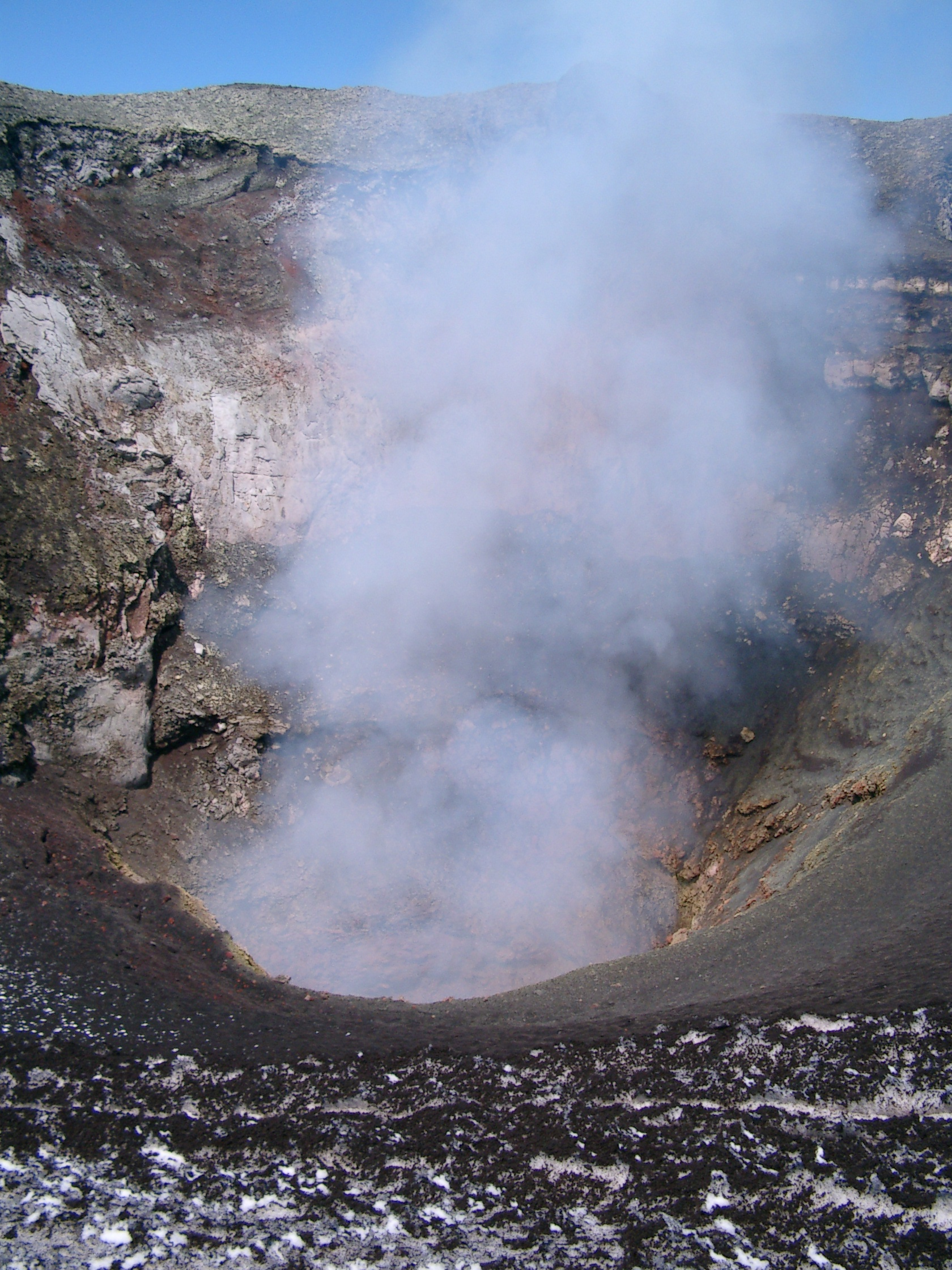 Volcanic fume escaping from the summit crater of Villarrica volcano, Chile.